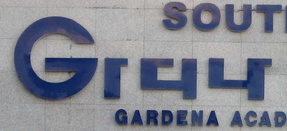 Building sign with the city of Gardena written in mixed Latin-hangul script